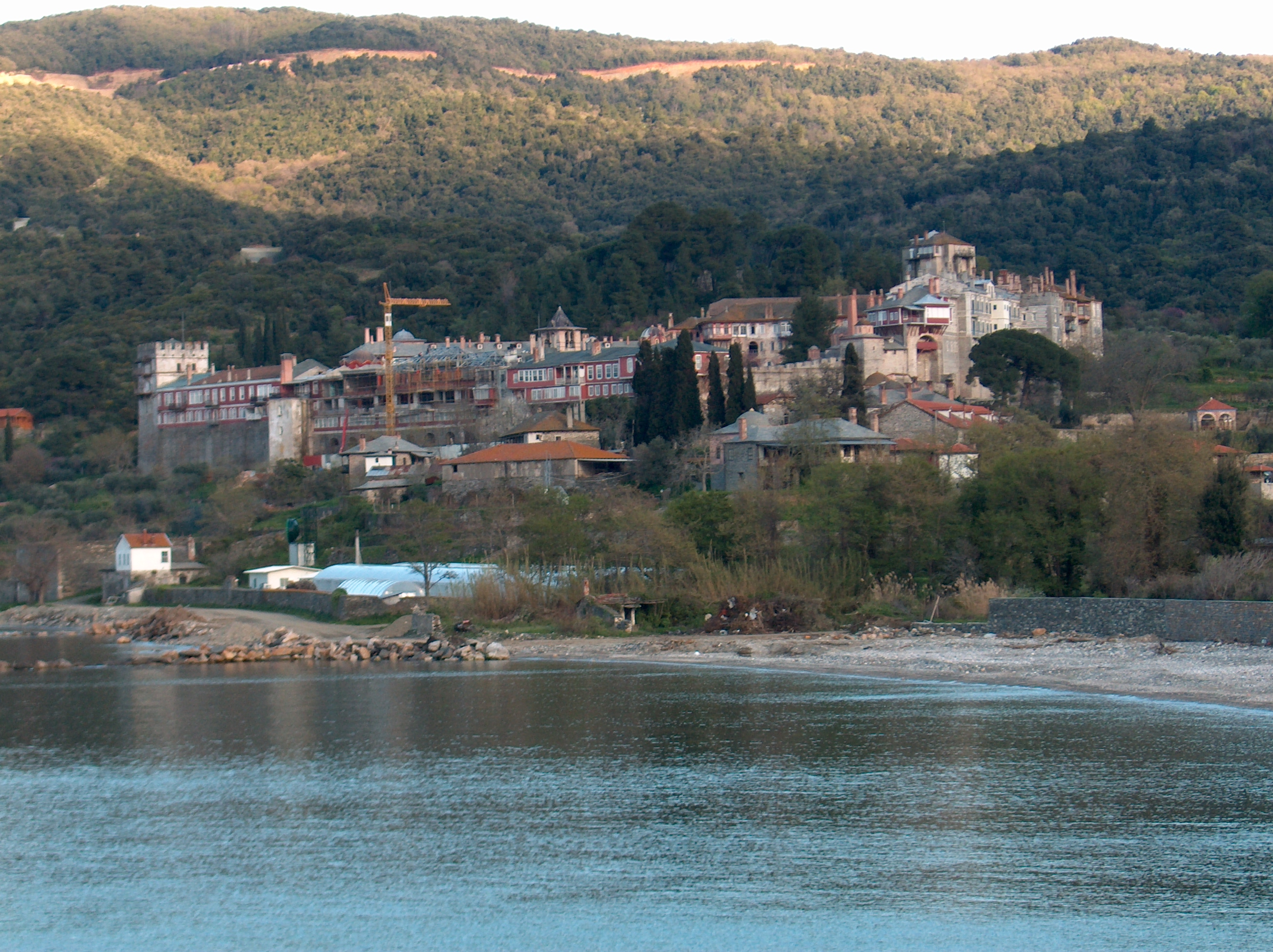 View of the Vatopedi monastery in Mount Athos (April 2006).